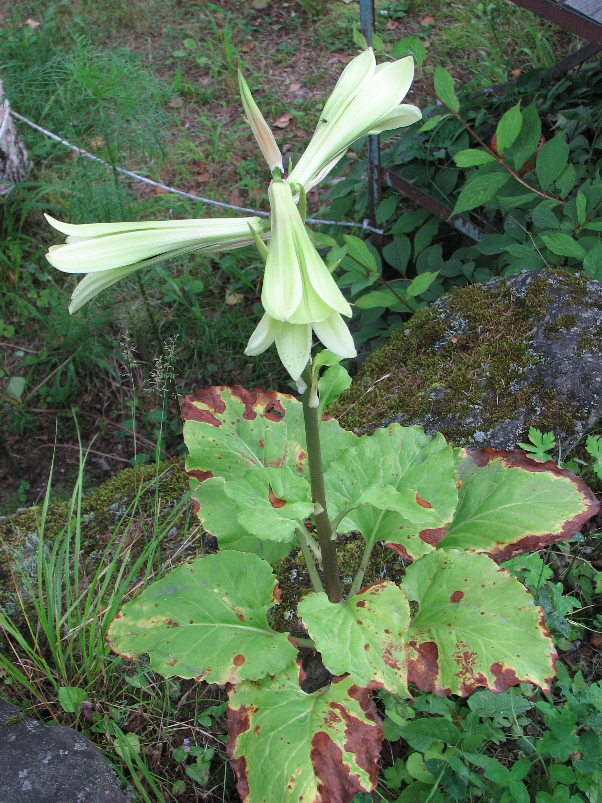 Cardiocrinum cordatum at Mt. Yatsugatake, Yamanashi pref, Japan